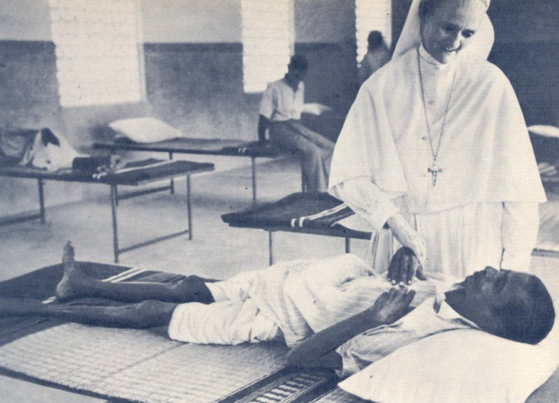 Salesian sister caring for a hungry and sick person Madras Presidency